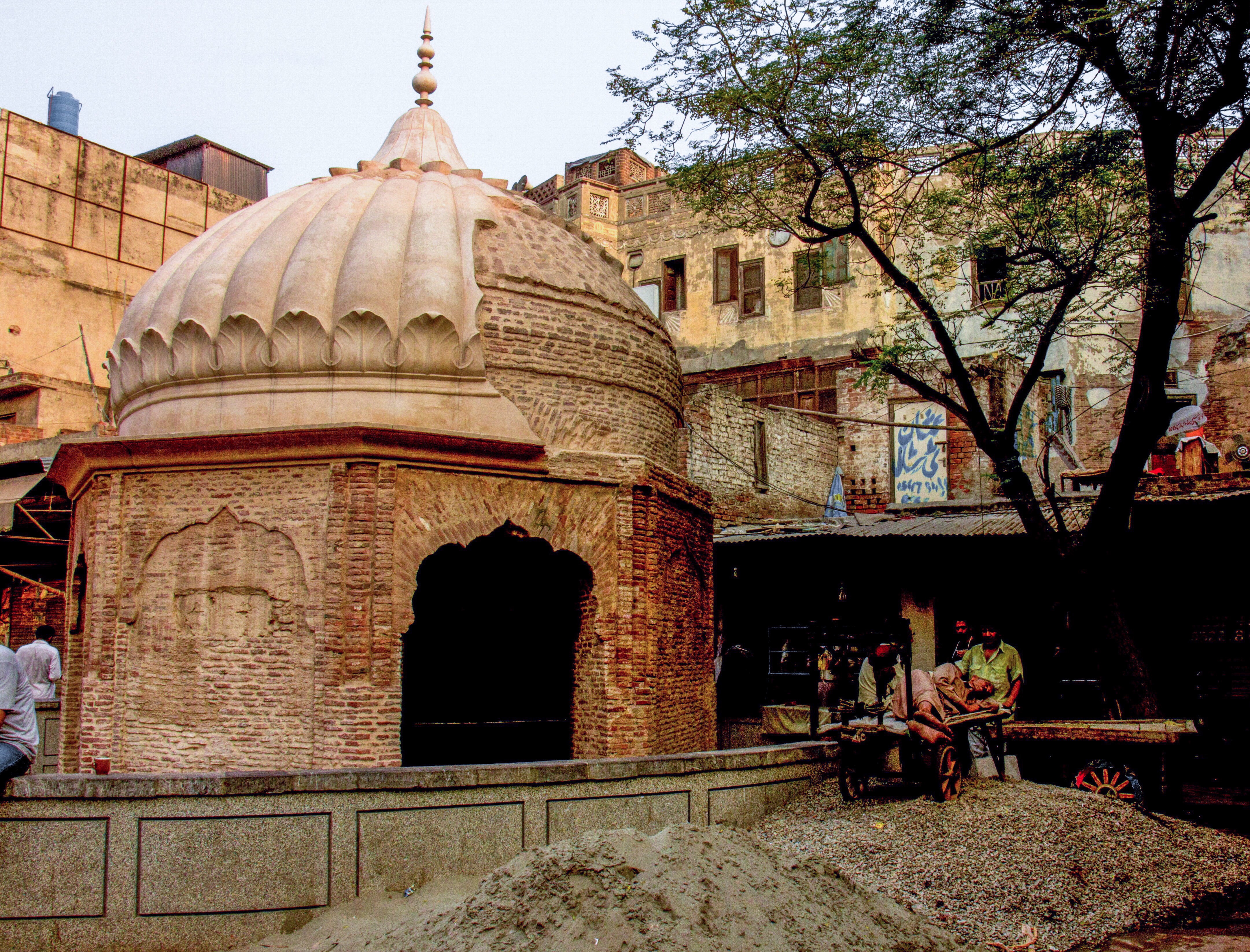 Well of Dina Nath This is a photo of a monument in Pakistan identified as the PB-77